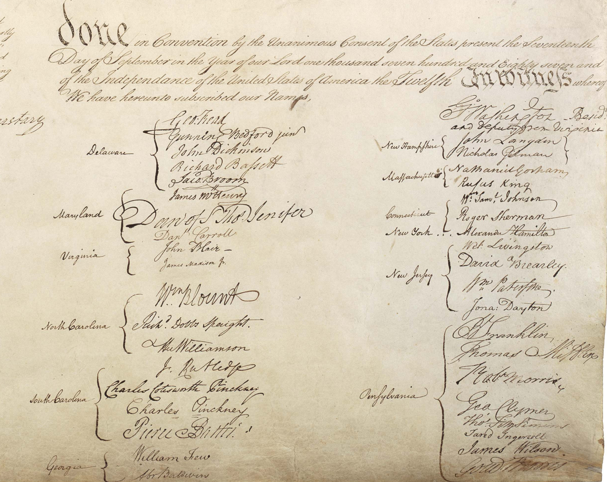 Signatories to the United States Constitution, closing endorsement detail